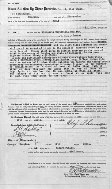 Bill of sale dated 19 April 1911 transferring ownership of the Kensington Runestone from Olof Ohman to the Minnesota Historical Society for ten dollars. The property description reads: All the right title interest and ownership that I am seized of in and to the so-called Runston found by me on my farm of ninety eight acres in section fourteen in the town of Solem in the county of Douglas and state of Minnesota in the year Eighteen Hundred Ninety eight (1898) A more particular description of said stone being- Said stone being a Greywacke about twenty eight inches long, fifteen inches wide, and five and one half inches thick, weighing two hundred and thirty pounds, containing the following inscription in runes...